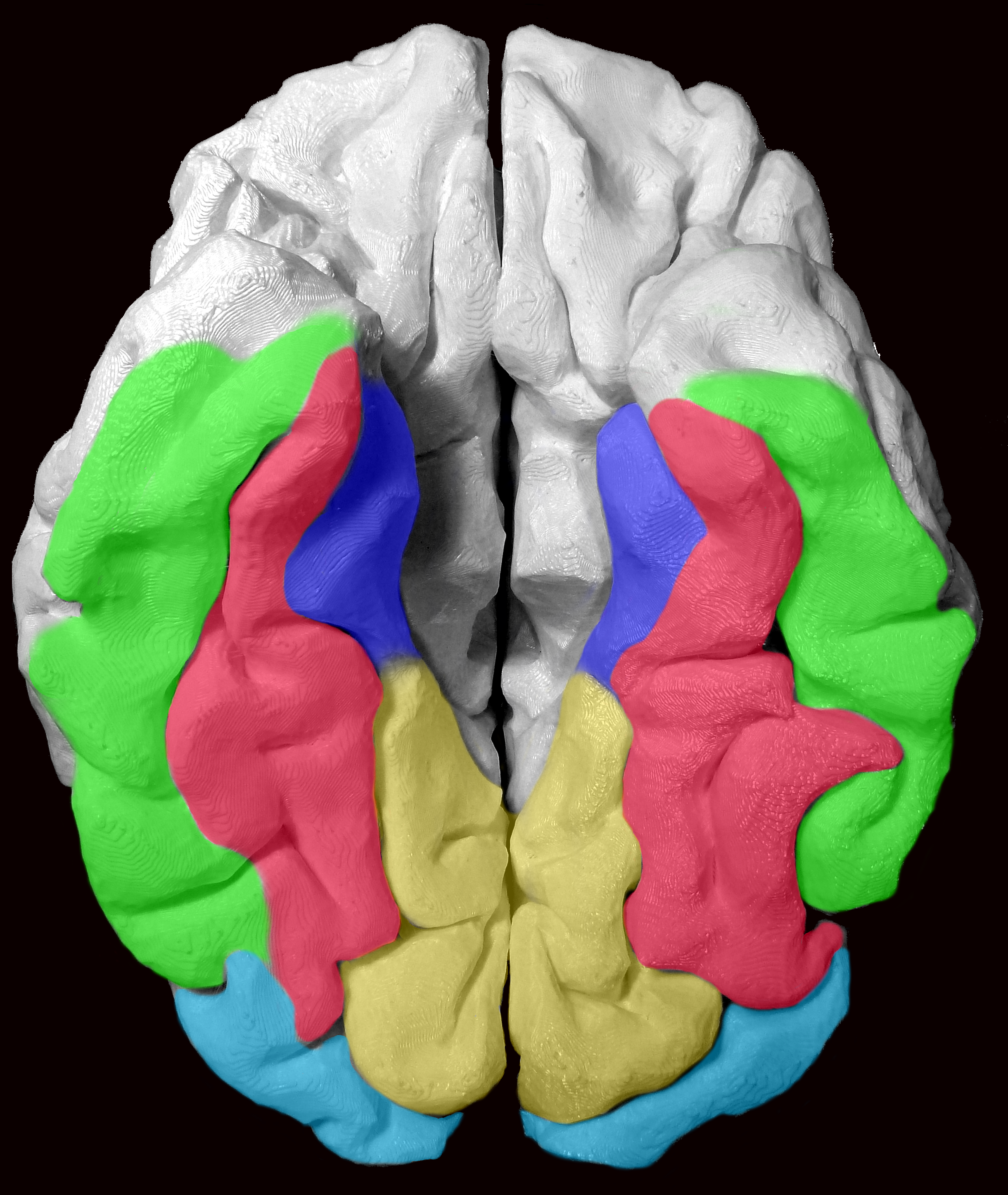 The Fusiform gyrus and all gyri adjacent to it, displayed on a 3D-printed brain of a healthy adult. As we view the brain from below, the right hemisphere is on the left side of the image; red – fusiform gyrus; green – inferior temporal gyrus; blue – parahippicampal gyrus; yellow – lingual gyrus; cyan - inferior occipital gyrus.